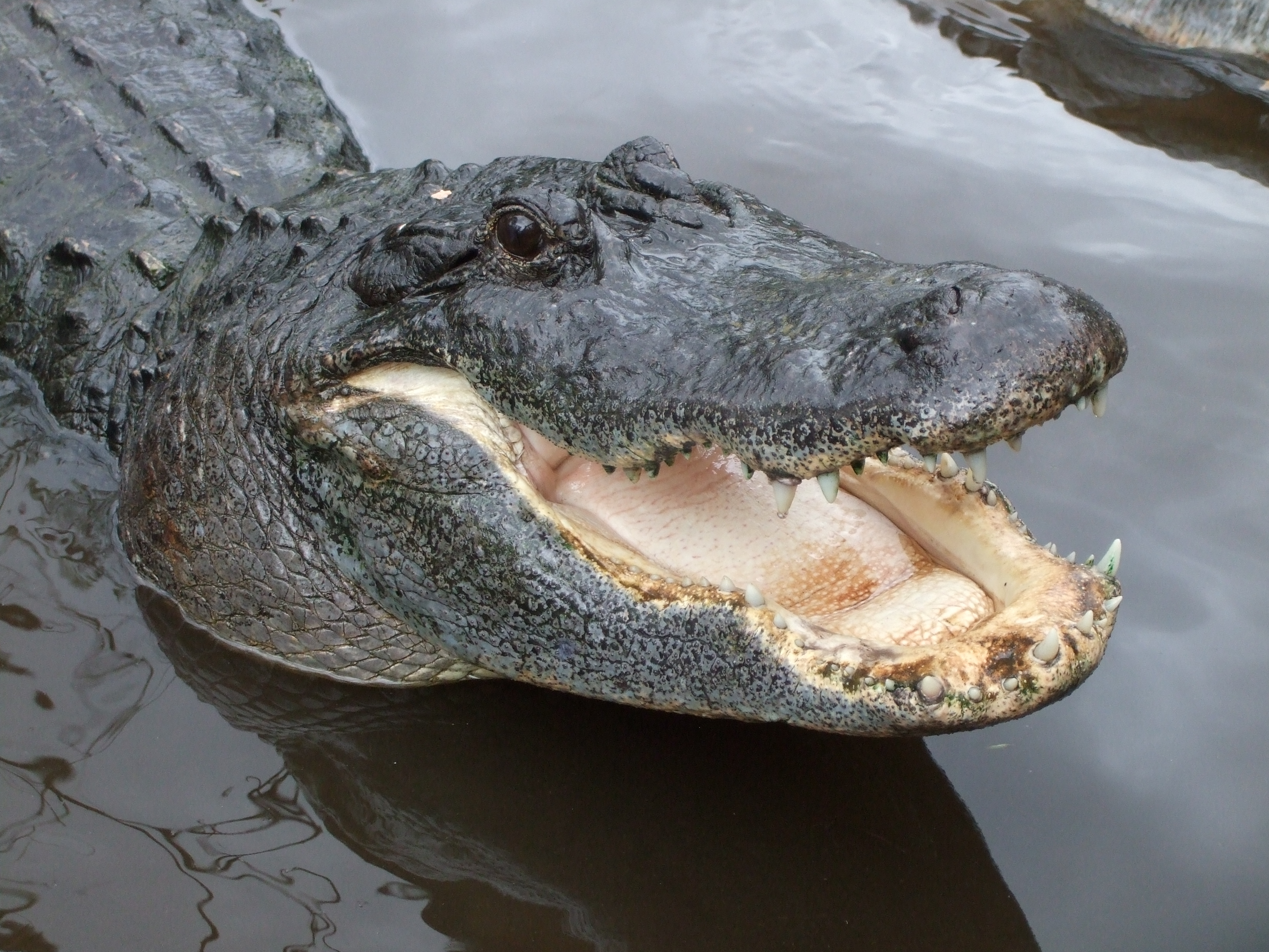 A picture of an American Alligator in Gatorland in Florida